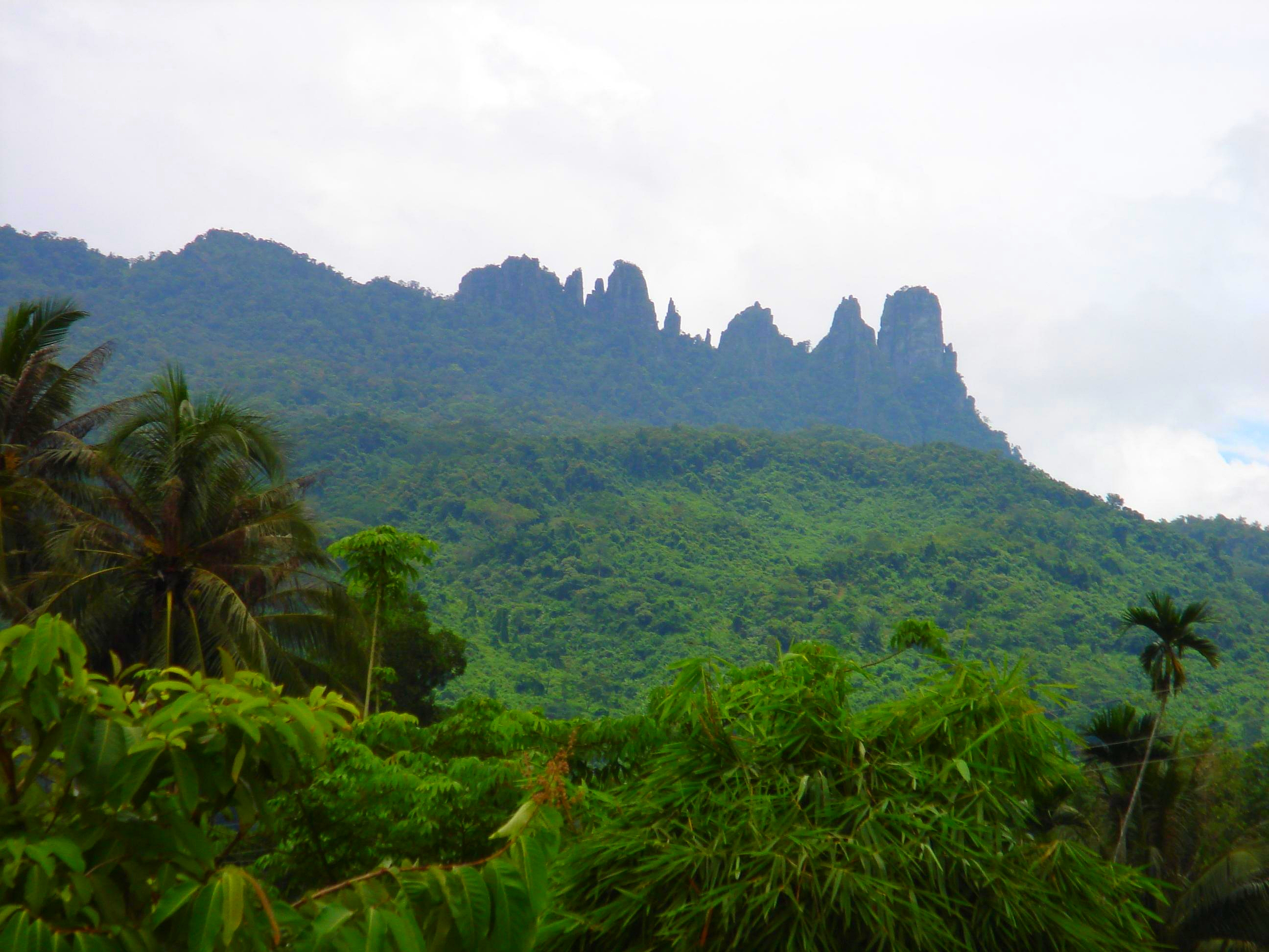 Baoting Li and Miao Autonomous County, Hainan Island, China. Landscape.